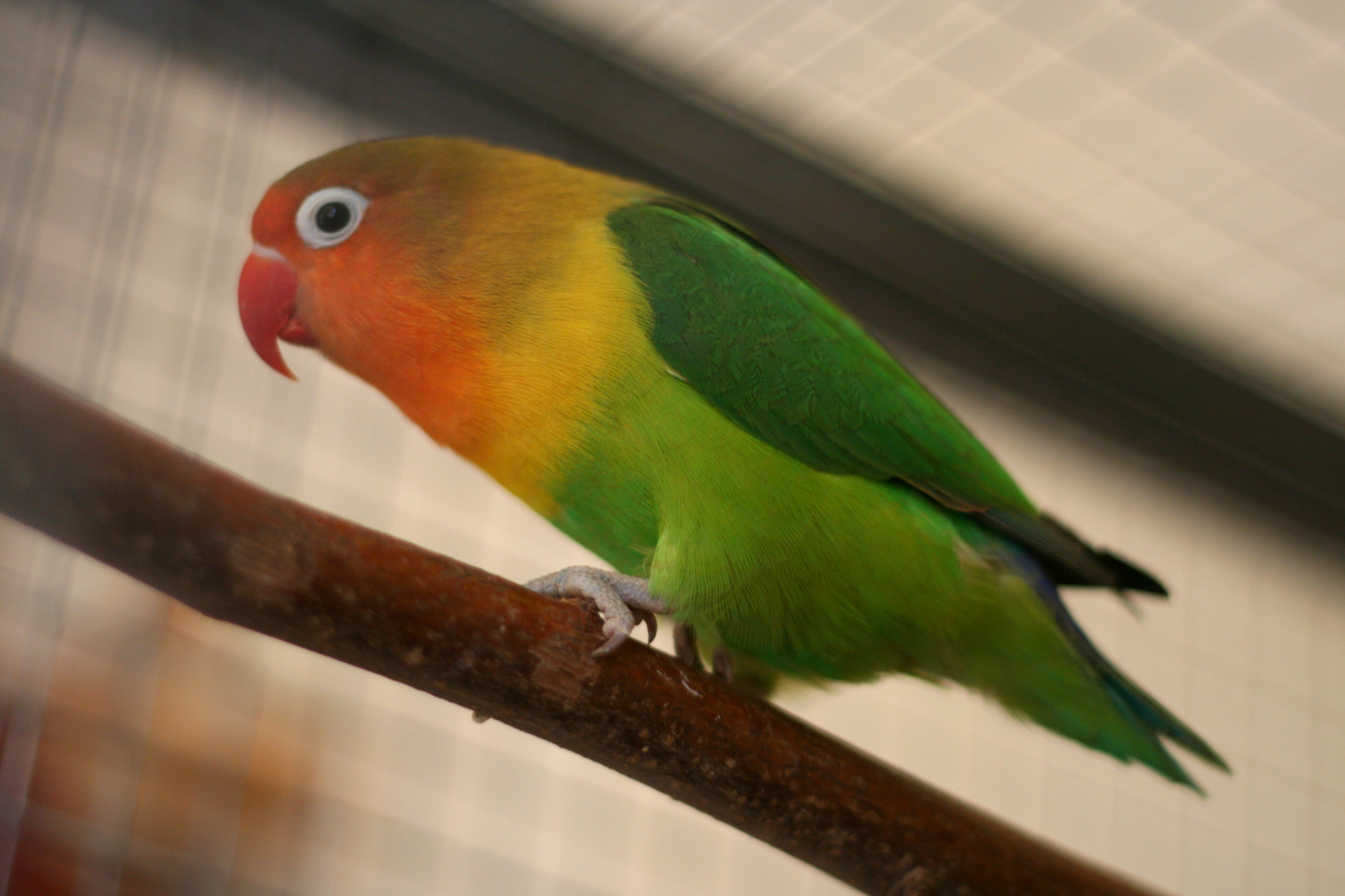 Fischer's Lovebird, (Agapornis fischeri); side view of a pet on a perch